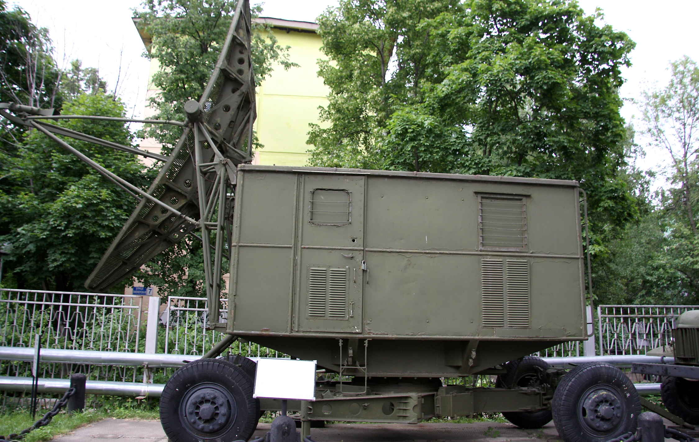 Air Defense History Museum in Zarya in Moscow Oblast.